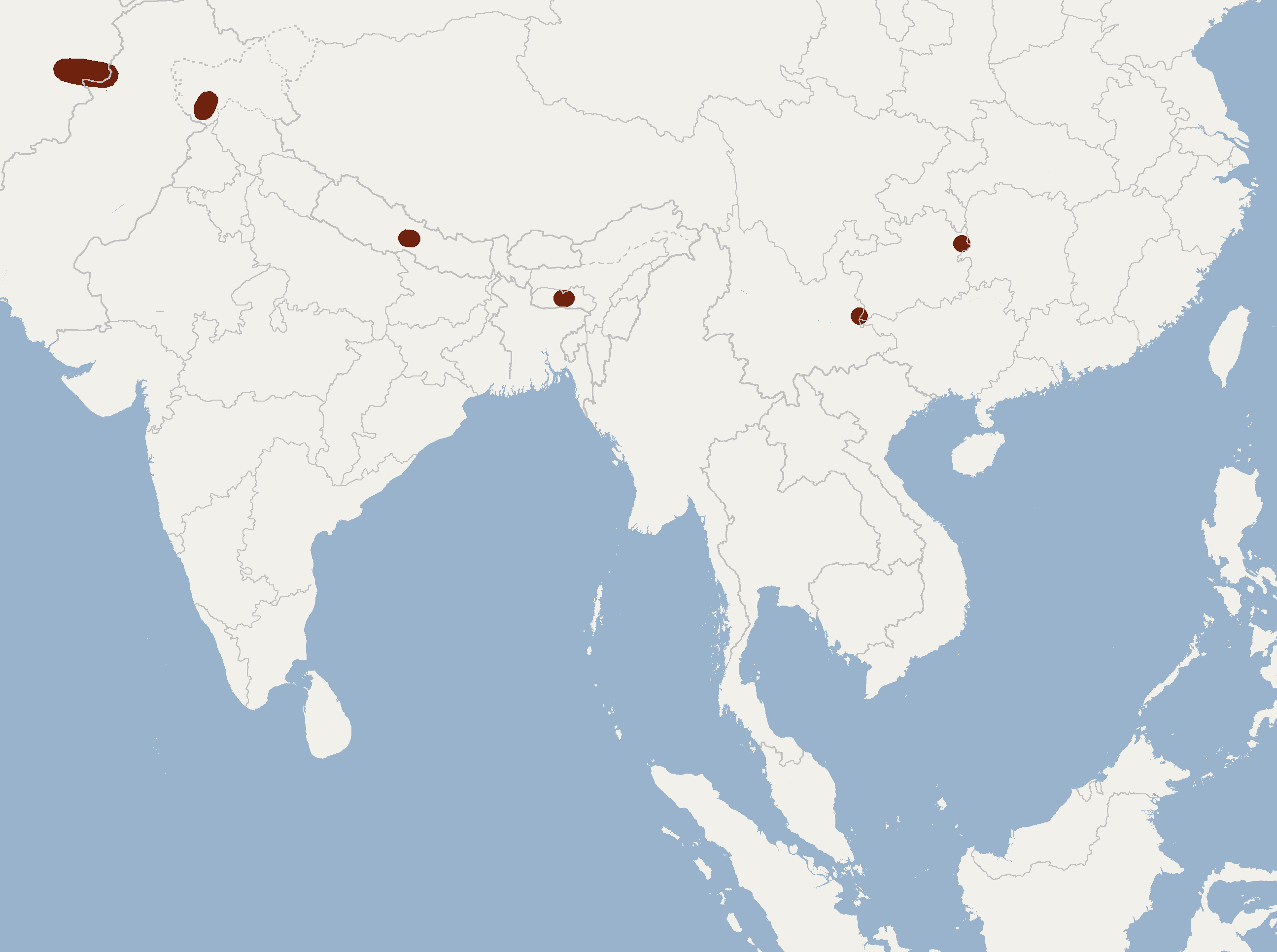 According to Molur, 2002 and Smith & Xie, 2008